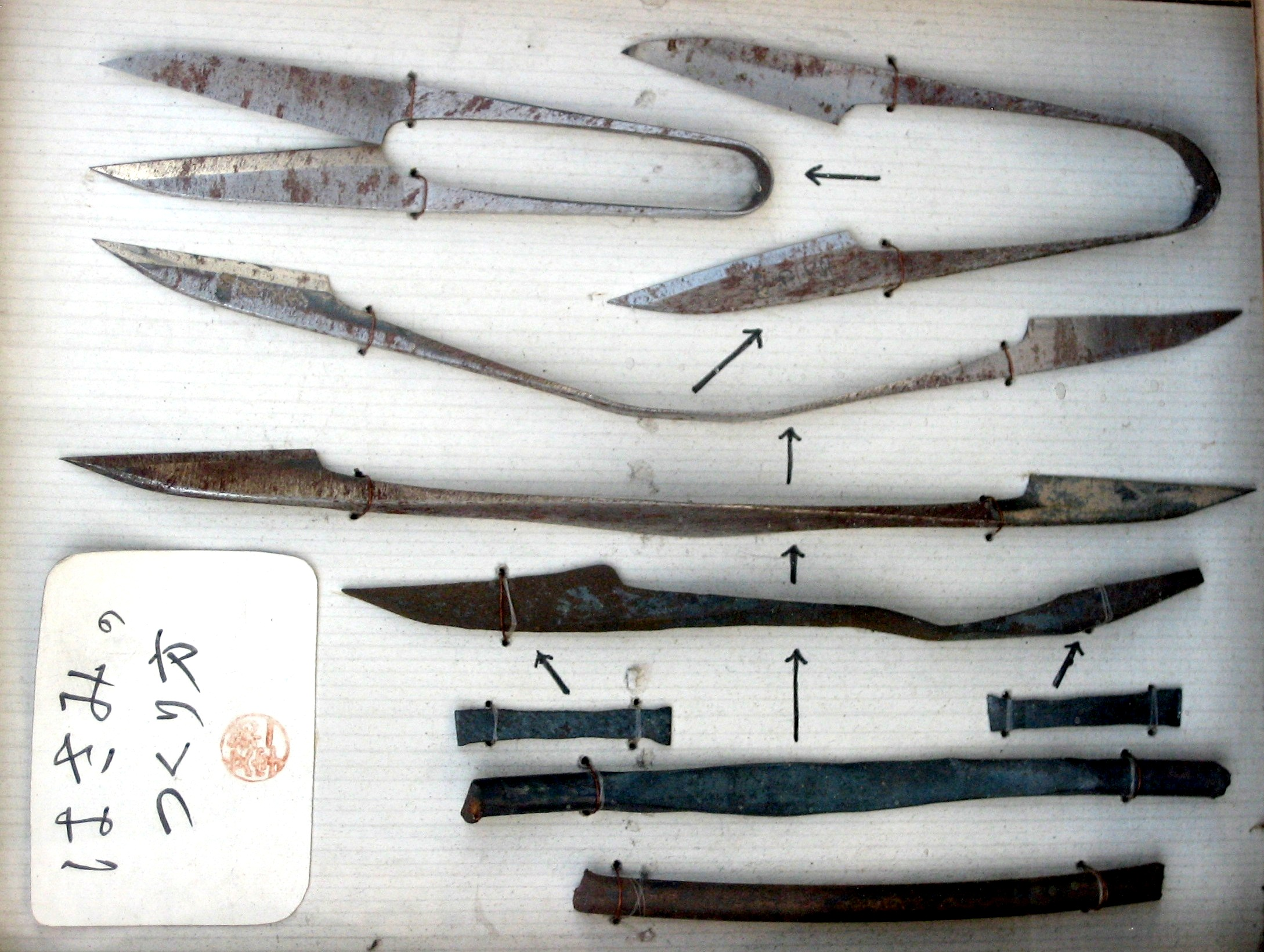 Steps in manufacturing japanese type scissors, display at a shop in Nara, Japan